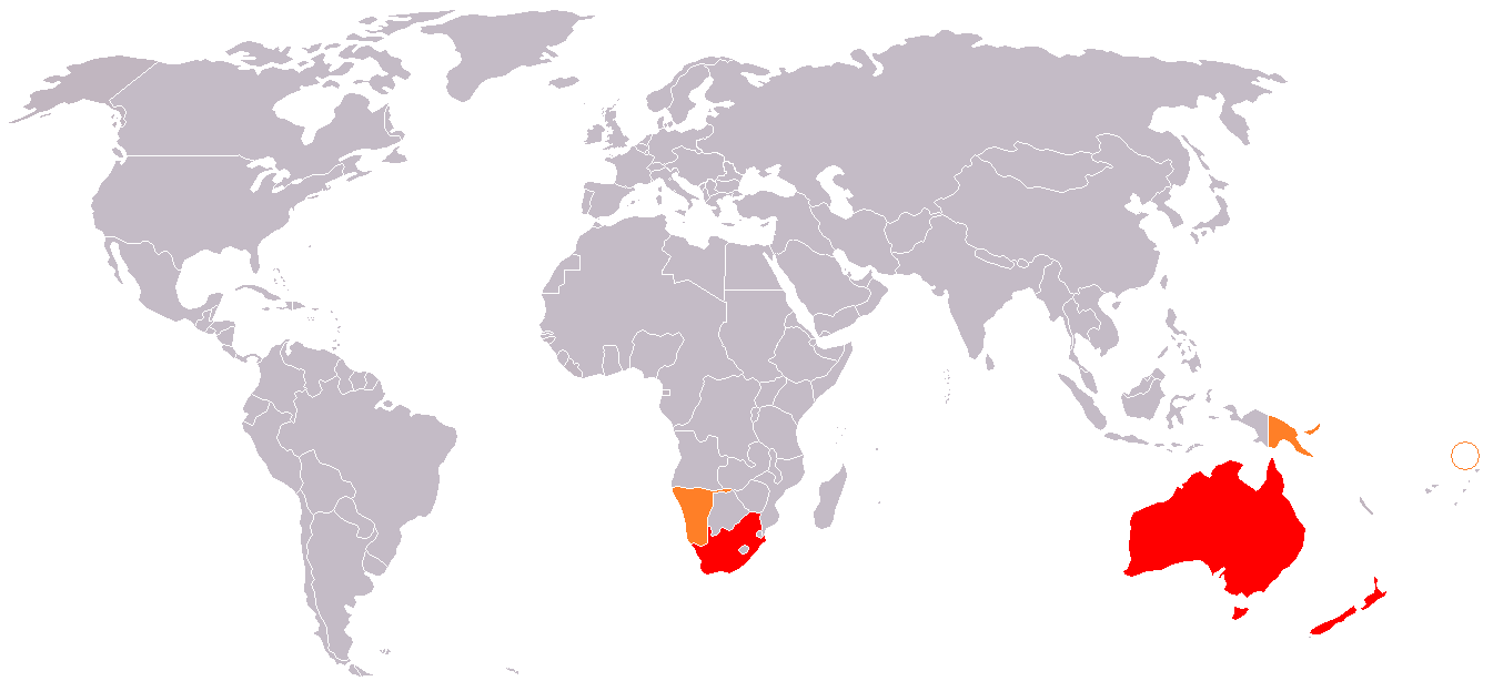 Map of the colonies of the de l' Afrique du sud, Australia and New Zealand in 1918. Dominions are in red and their colonies in orange.